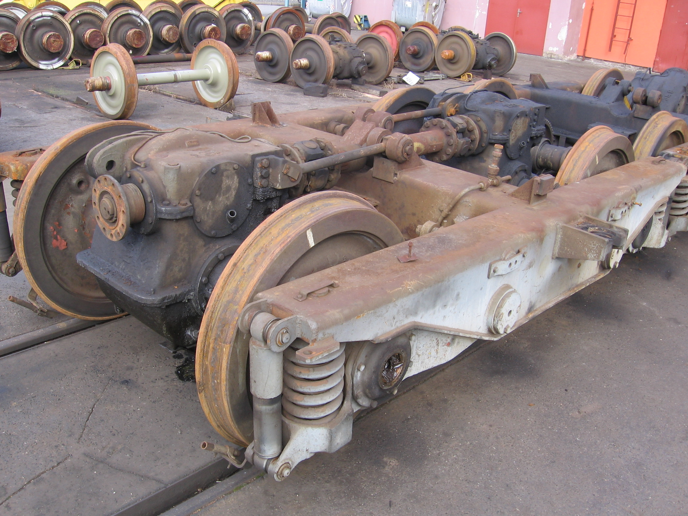 Bogie of ČSD Class 725 and 726